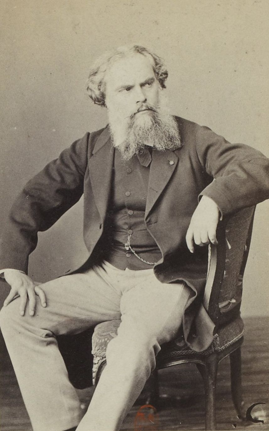 Portrait of Alexandre Cabanel